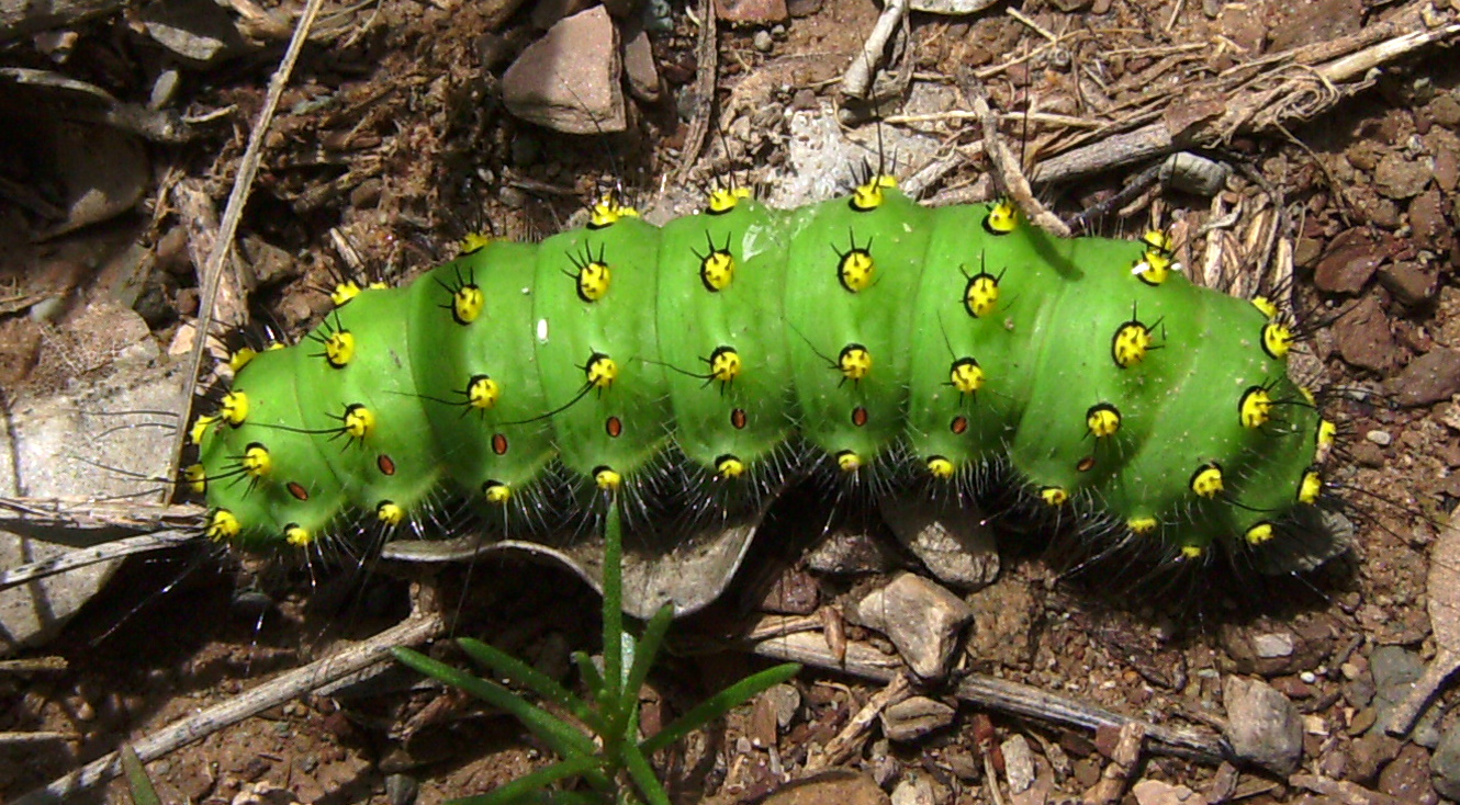 Saturnia pavonia caterpillar [a first stage) in the wild, Castelltallat, Catalonia